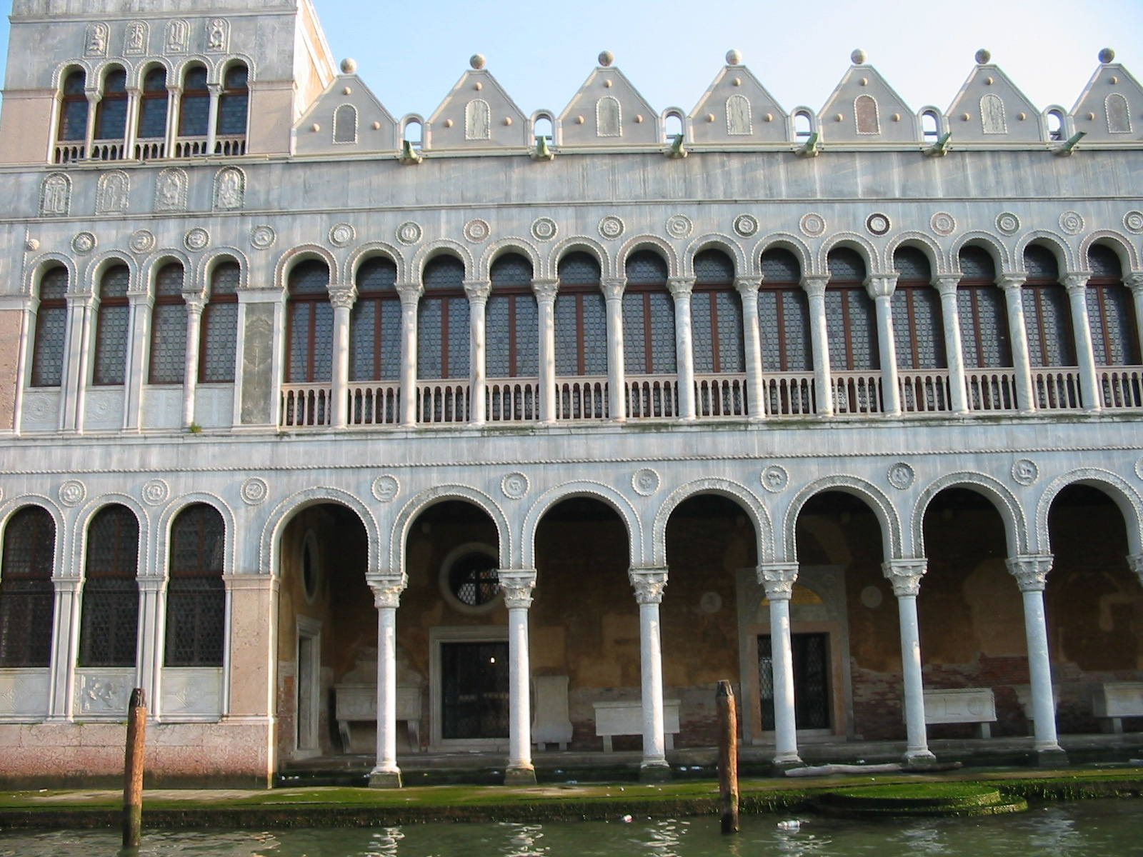 Il Fondaco dei Turchi, Venice